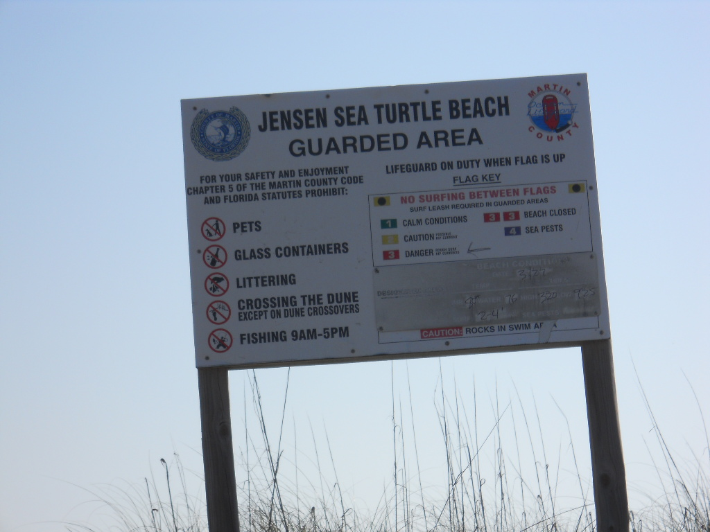 Sign at Jensen Sea Turtle Beach, Jensen Beach, Florida